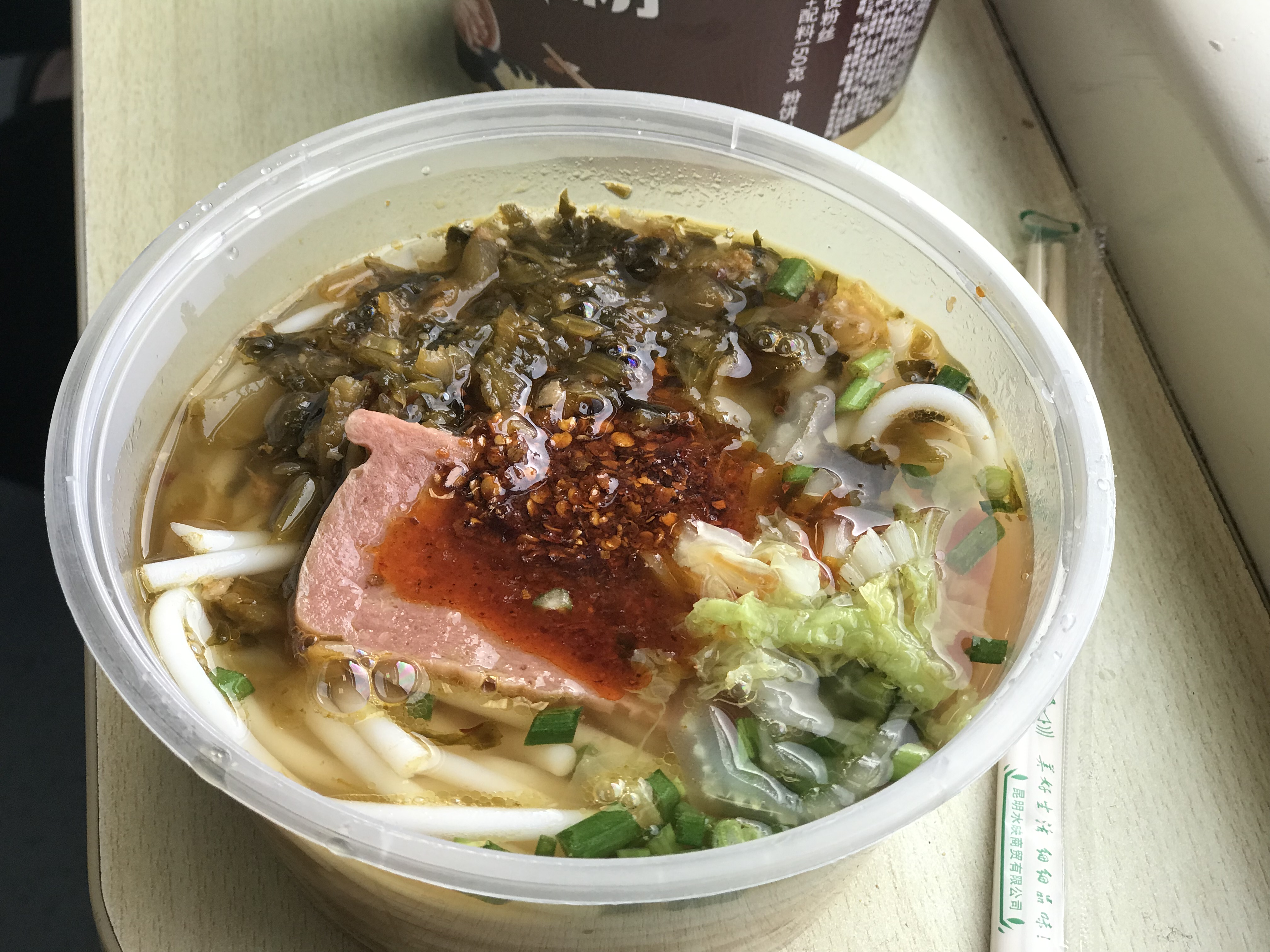 Served as breakfast, wish every train in China can serve this...